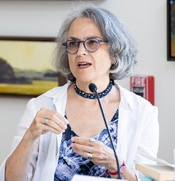 American Author Elizabeth Benedict at Islanders Write, August 2019